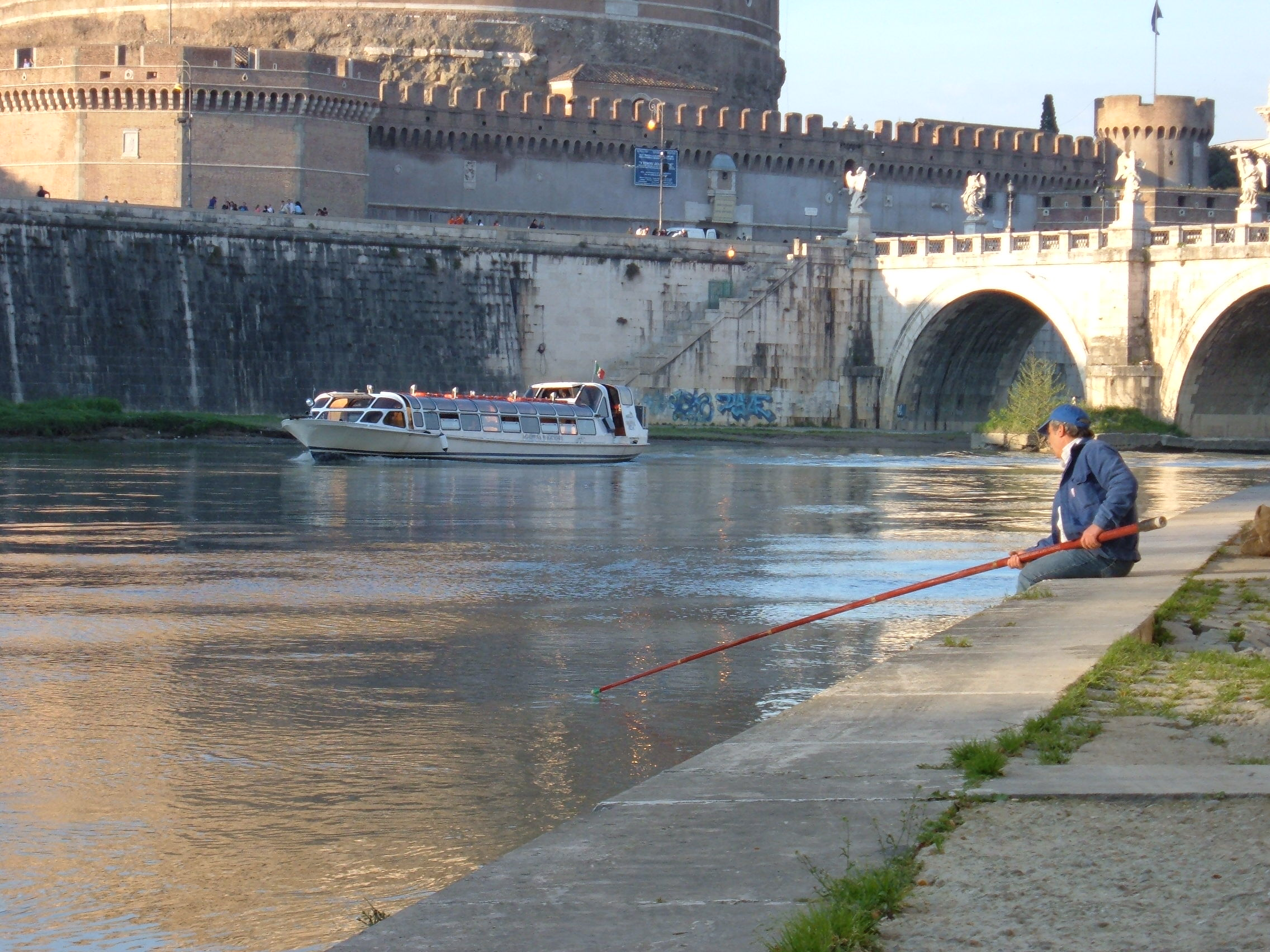 Fishing in the River Tiber (Rome,City center). In the background the Mausoleum of Hadrian, (Castel Sant'Angelo) is visible.